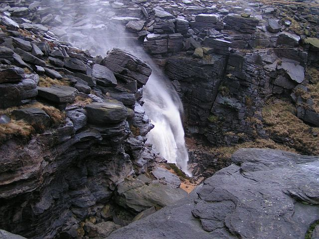 Kinder Downfall from the northwest - 12th February 2005.